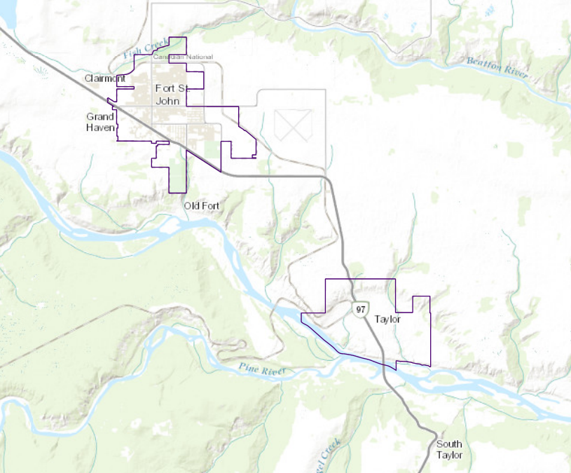 Topographic map of Fort St. John and Taylor, British Columbia. Map outlines municipal boundaries